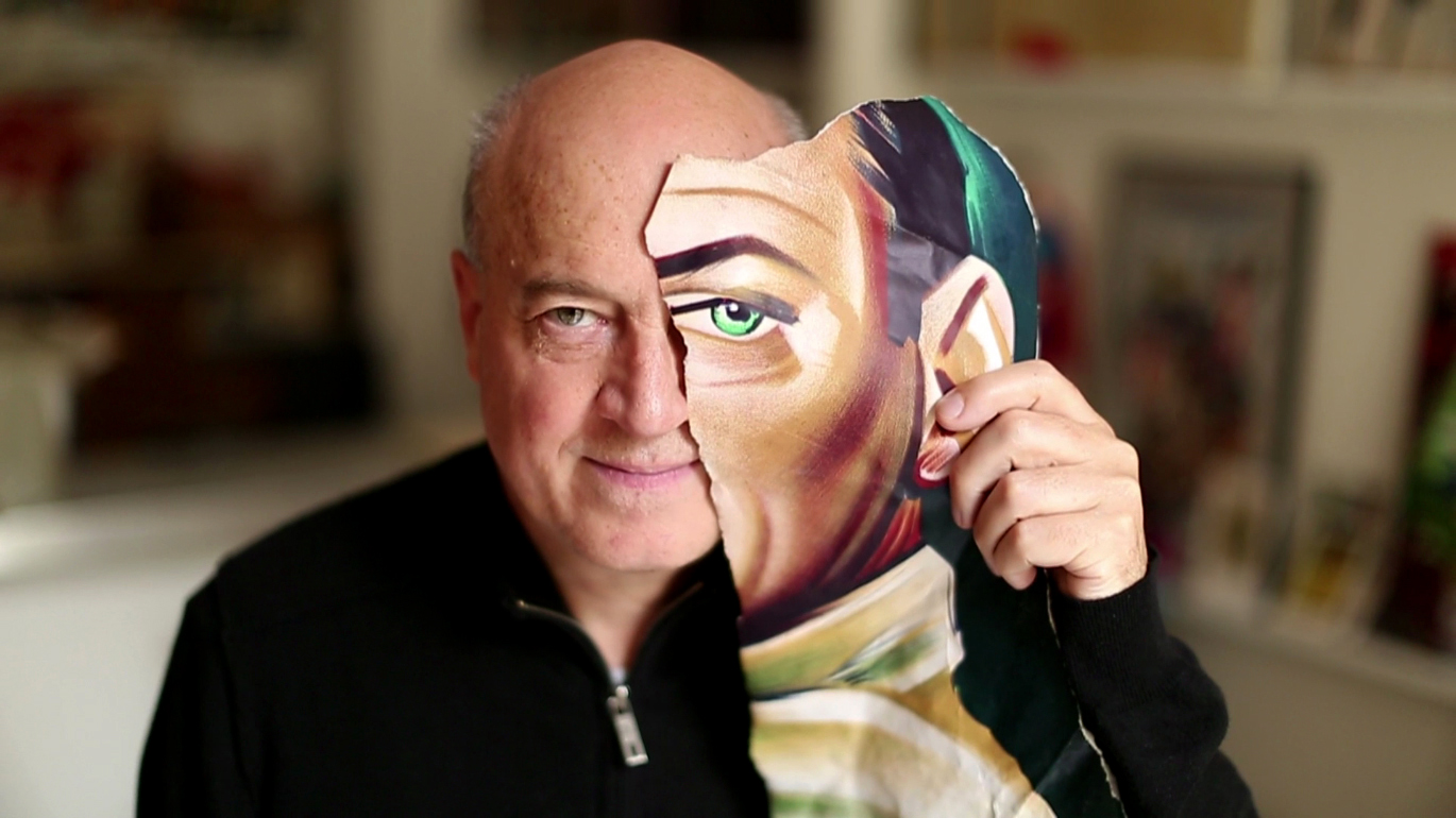 Dominique Lebrun - artist - portrait